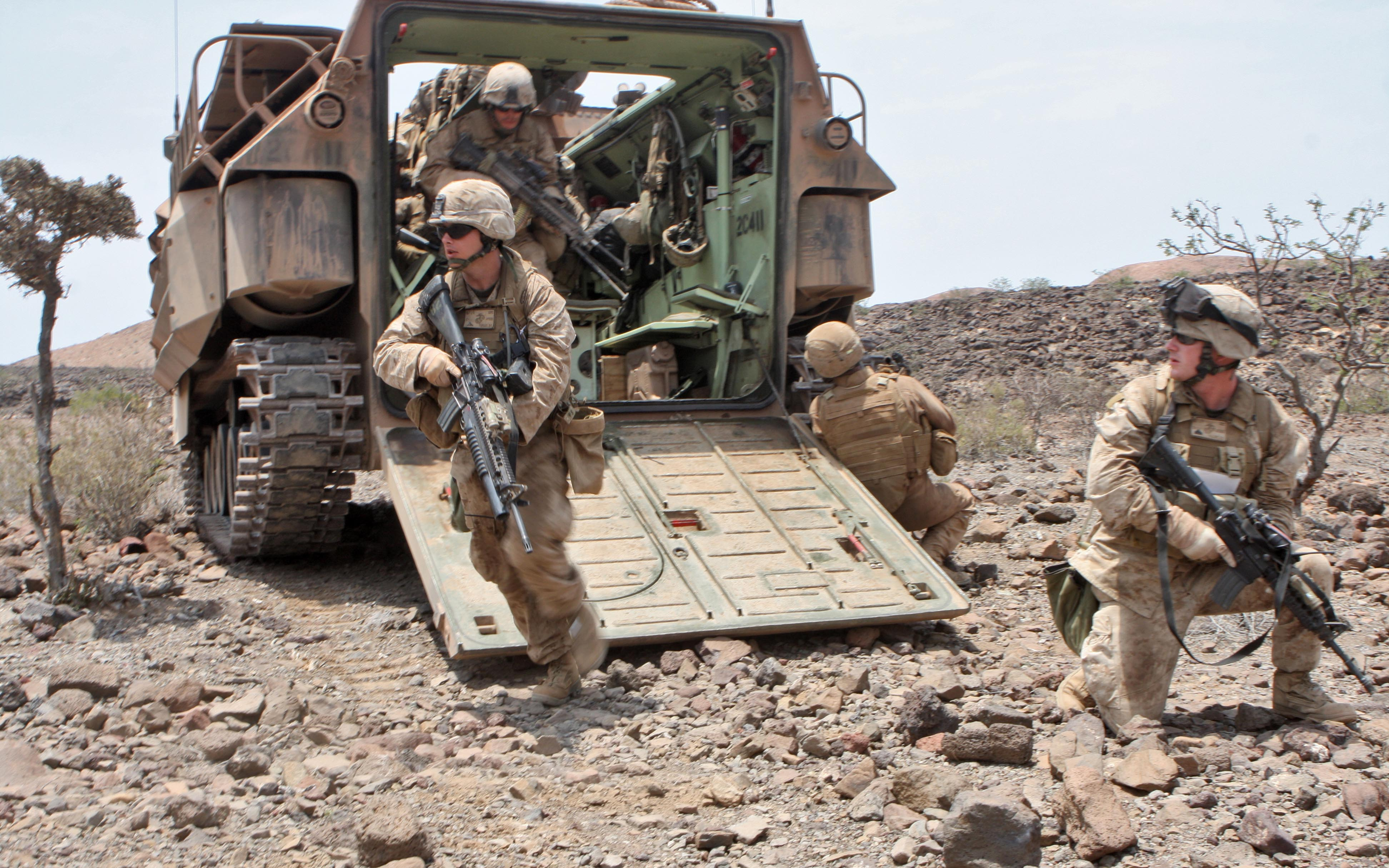 Cpl. Daniel Mallory, a squad leader with 1st platoon, Alpha Company, Battalion Landing Team 1st Battalion, 9th Marine Regiment, 24th Marine Expeditionary Unit, posts security at the rear of an Amphibious Assault Vehicle (AAV) as team leader Lance Cpl. Daniel Pursley, exits towards their objective point during a mechanized assault as part of a live fire range in Djibouti, Africa, March 29. The infantry Marines initially closed with their objective riding through the mountainous, desert environment, in the back of Assault Amphibious Vehicles from the 24th MEU's Amphibious Assault Vehicle platoon. 24th MEU Marines performed a series of sustainment exercises, as well as bi-lateral training alongside the French military, during a month-long rotation of units from 24th MEU conducting training in the east-African country. The 24th MEU currently serves as the theatre reserve force for Central Command.